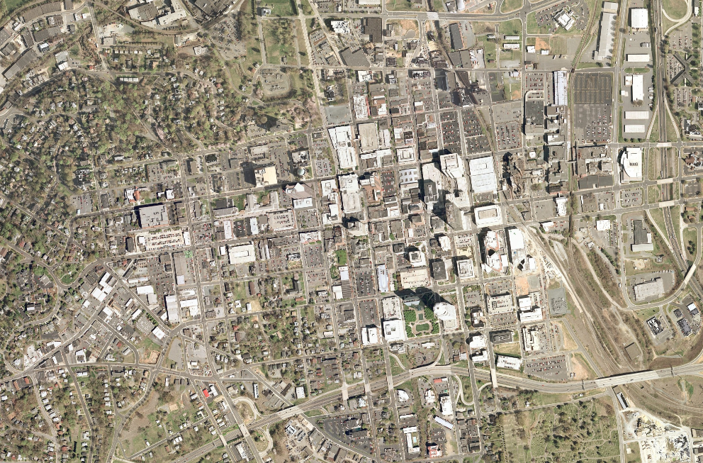 Winston-Salem satellite view, nasa world wind 1.3.5